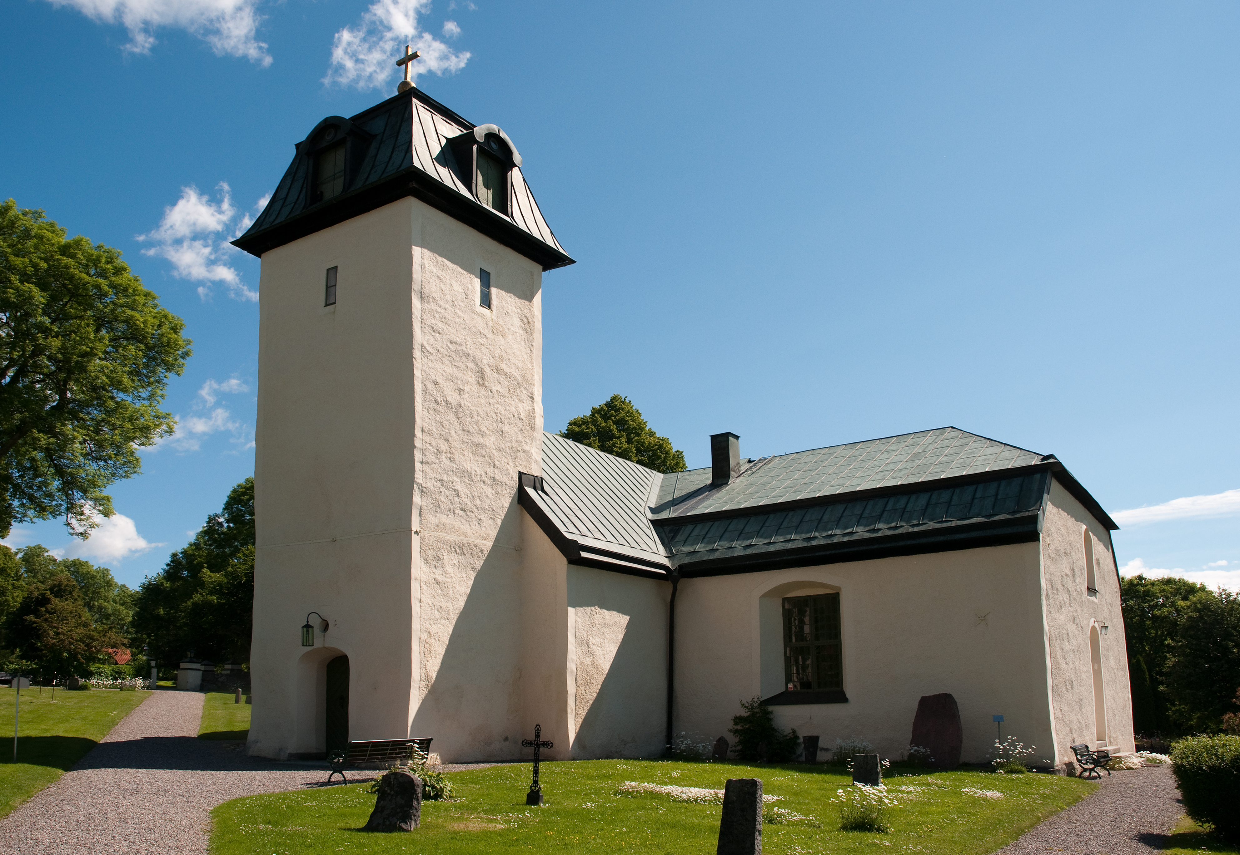 Gryts church